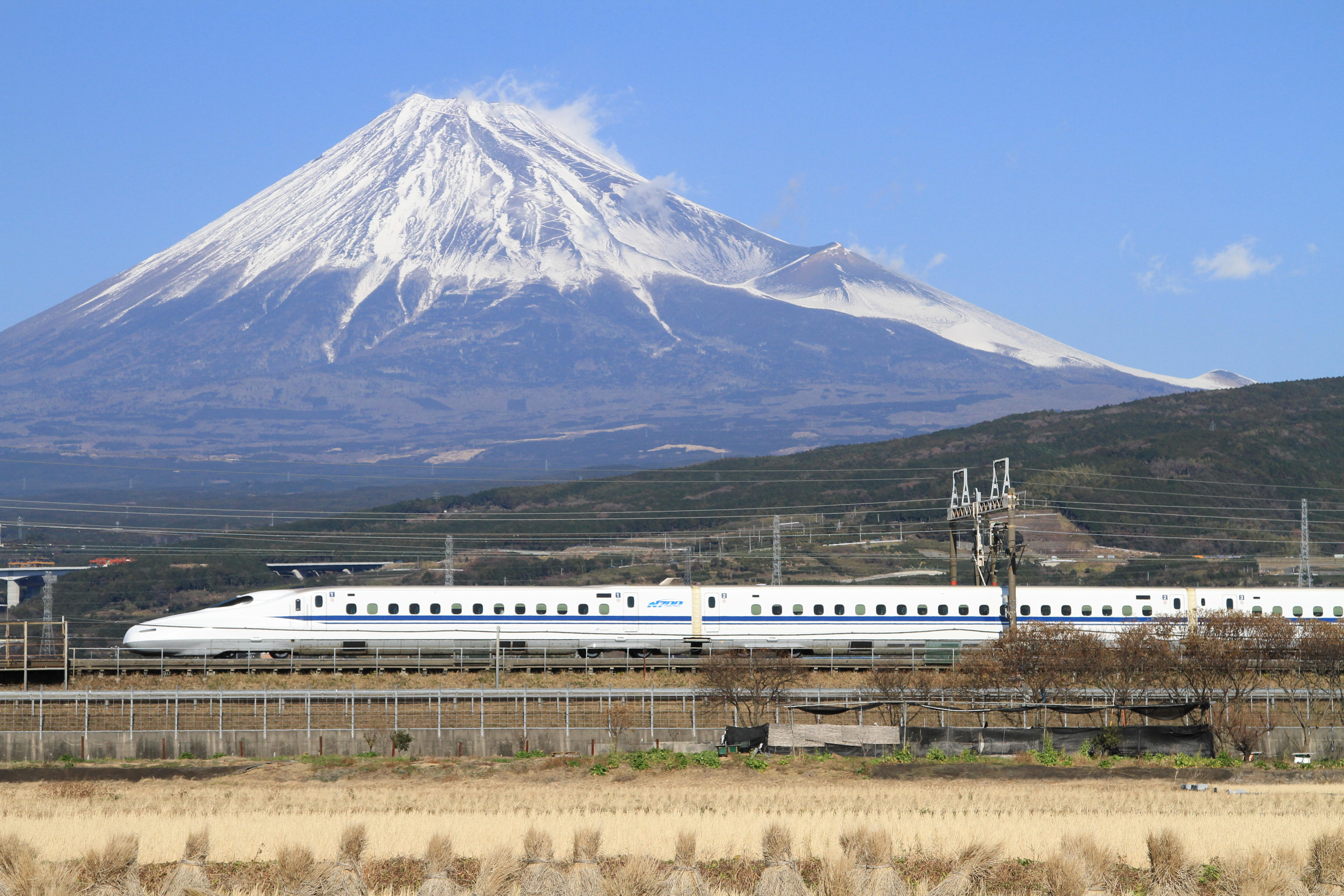 An N700 series shinkansen train at speed on the Tokaido Shinkansen with Mount Fuji behind